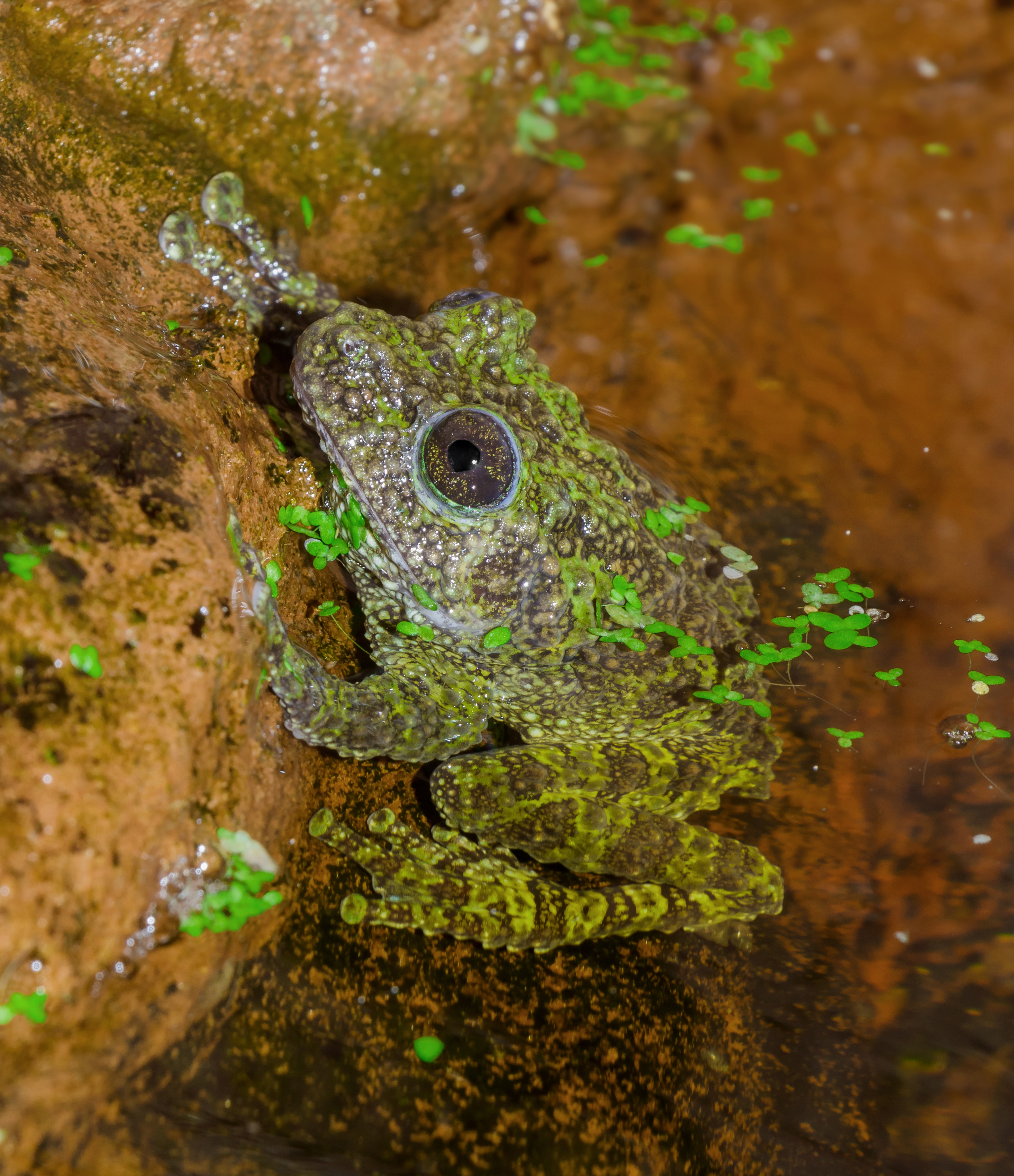 Theloderma corticale (Boulenger, 1903), Vietnamese mossy frog; Karlsruhe Zoo, Karlsruhe, Germany.